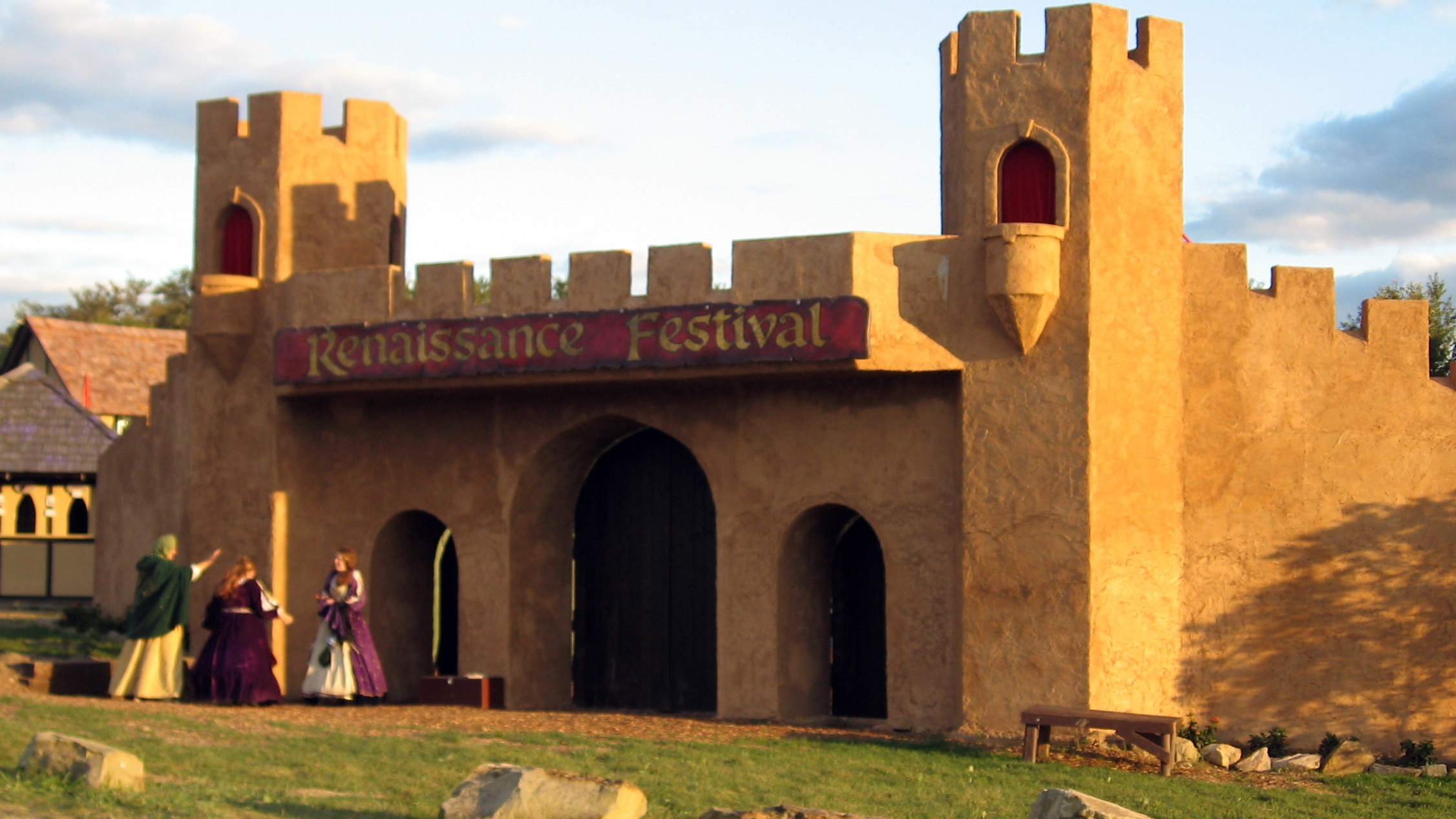 Princesses play outside the closed gate at sunset.